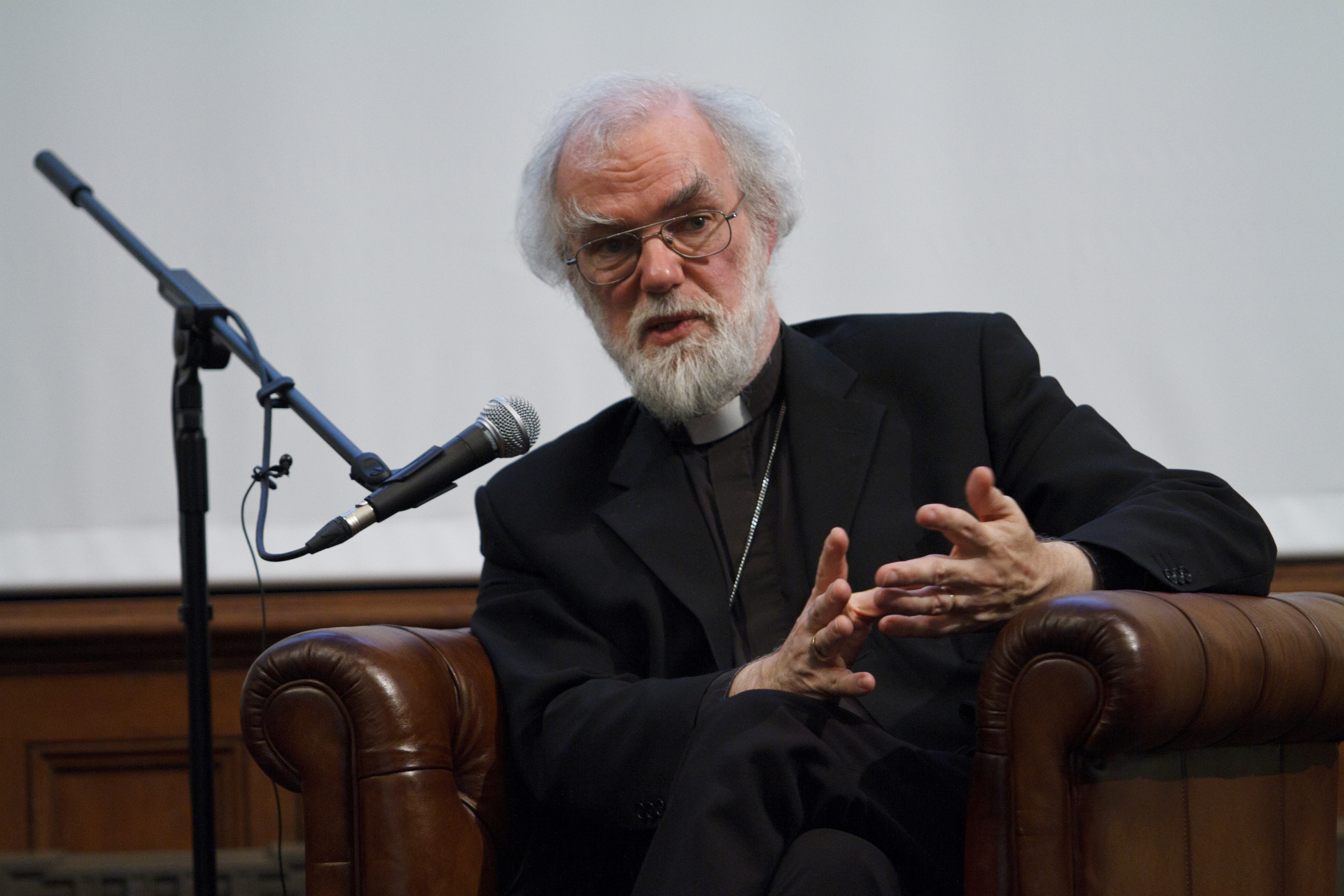 Rowan Williams, the Archbishop of Canterbury, gives a question and answer session in the Pierhead building of the National Assembly for Wales